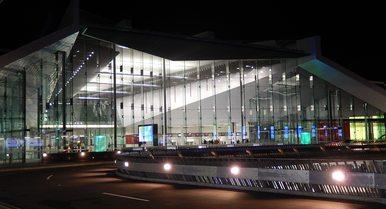 Arrivals Area at Night